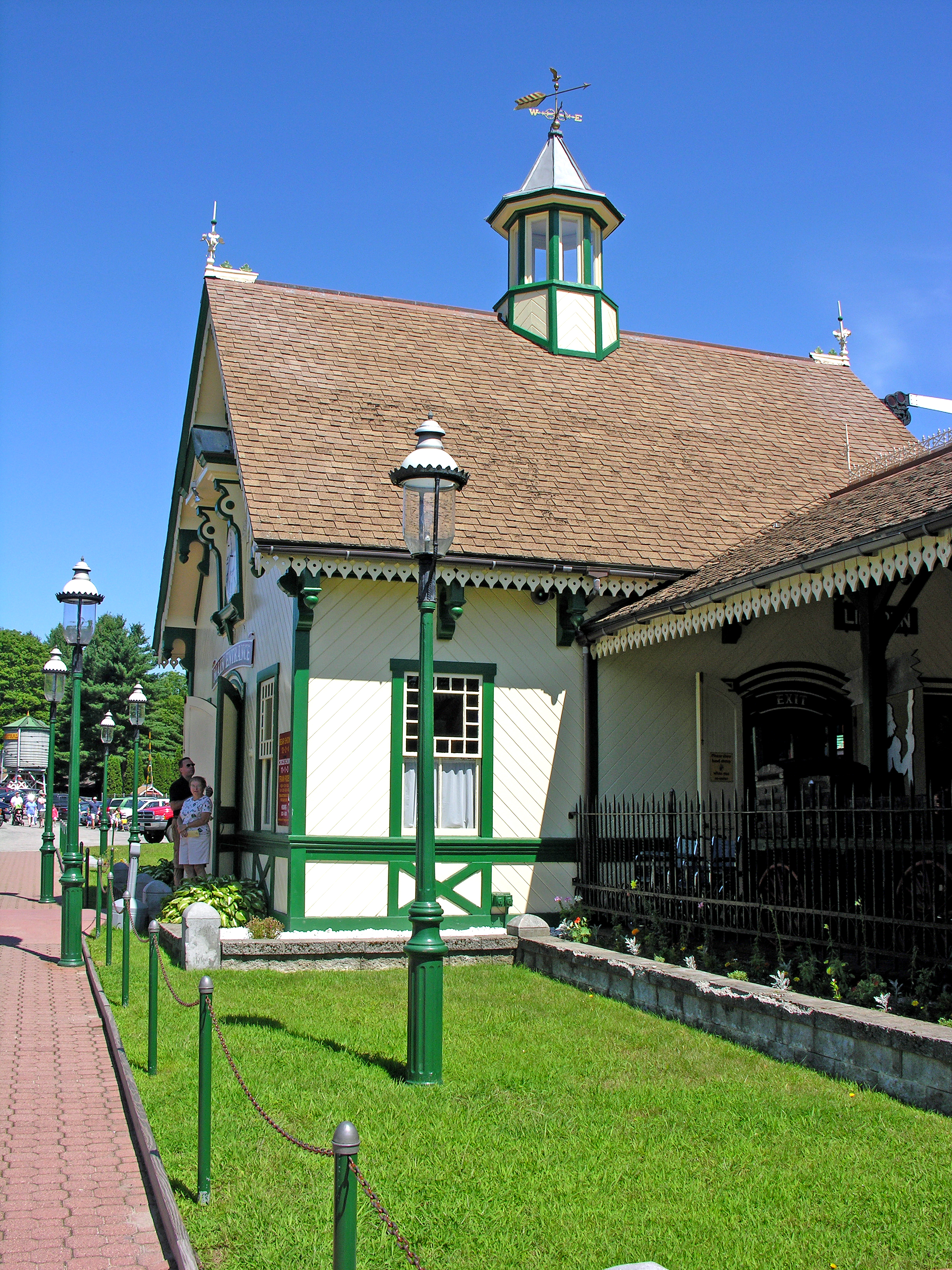 In 1928 Florence and Ed Clark opened a roadside attraction for White Mountain travelers in Lincoln NH. “Ed Clark’s Eskimo Sled Dog Ranch,” featured guided tours of their pure-bred Eskimo sled dogs and artifacts from the far North. The original “Stand,” or Trading Post, offered souvenirs, tonic, and maple candy to the motorists on nearby Route 3. Florence and Ed purchased their first Black Bear in 1931. Clark’s Bears acted as the perfect “stopper,” a visible attraction, gaining the attention of the curious passer-by. Starting in 1949 Edward and Murray, sons of Florence and Ed, began teaching and training the bears for show work. The Clark brothers and their bears, delighted guests with a healthy dose of wit, humor, and hospitality as they entertained and educated the audience. The Bear Show was born! Generations later, that philosophy lives on as the Clark’s offer visitors the best in family entertainment and good honest fun. You’ll find it all here- an excursion on The White Mountain Central Railroad through our authentic covered bridge and into Wolfman’s territory. Browse museums filled with Americana, witness, the extraordinary stunts of the Yandong Chinese Acrobatic Troupe and visit our many unique shops. Don’t forget our featured attraction The Bear Show—a truly original experience. All this and more await you, at Clark’s Trading Post—a White Mountain classic.